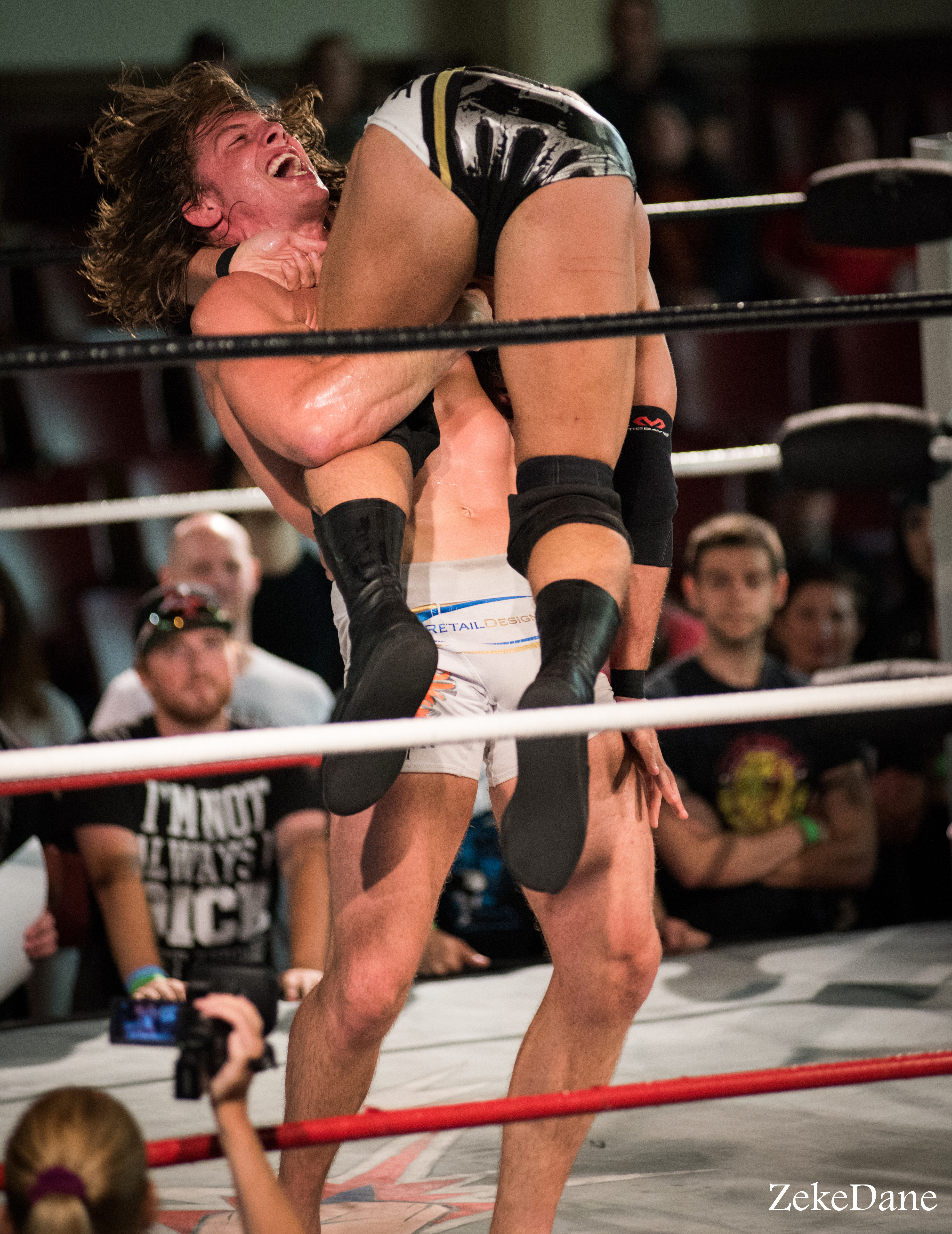 Riddle tosses WWE NXT star Tommaso Ciampa at a 2016 Beyond Wrestling even in Rhode Island